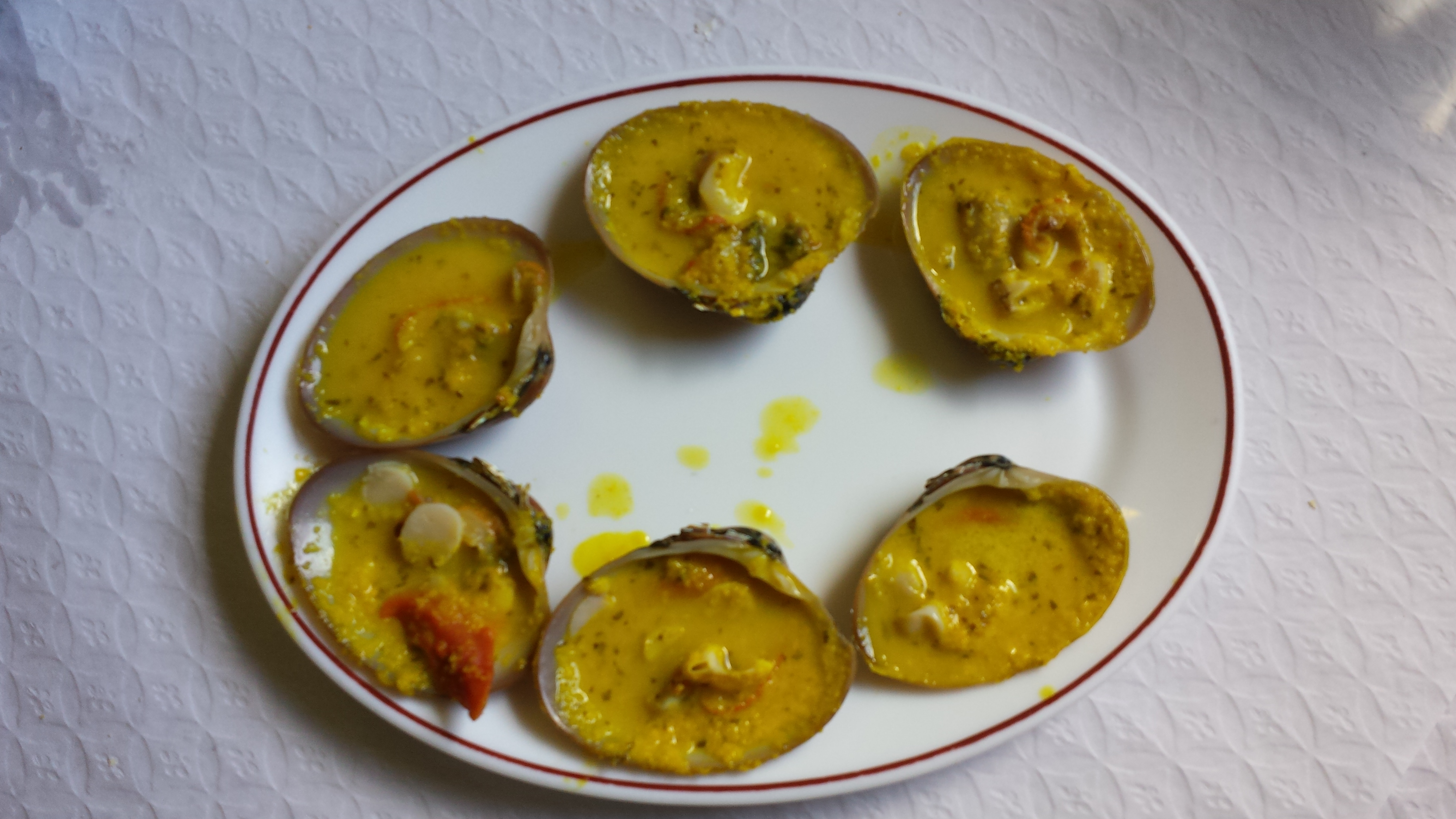 Conchas finas